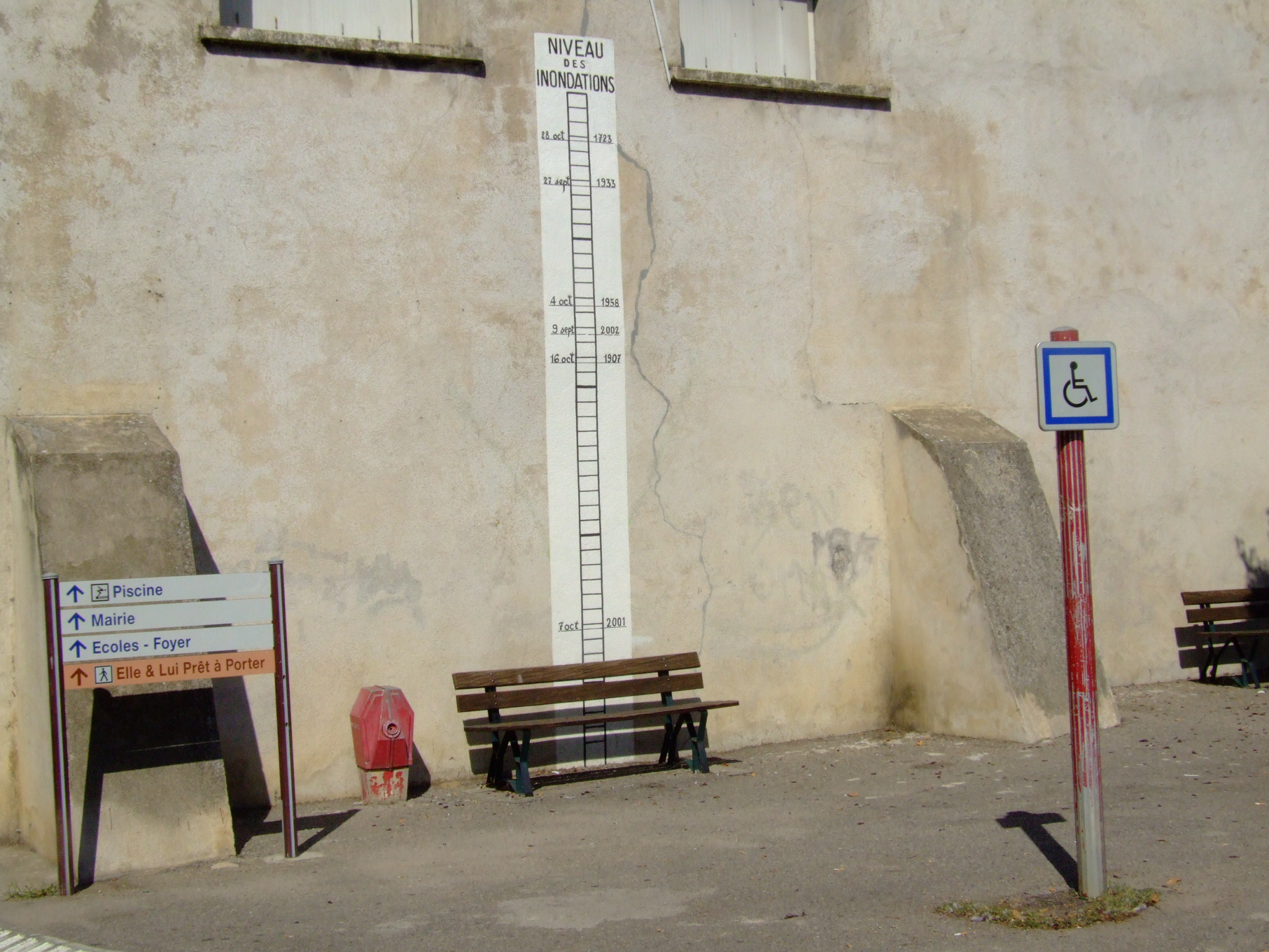 Quissac is village on the banks of the Vidourle in the department of Gard, France, some 20 km north of Sommières. The Vidourlades (floodings) are a significant feature, and here is an indicator of the water levels in prominent floods. 2002 reached 7,35m above reference here.